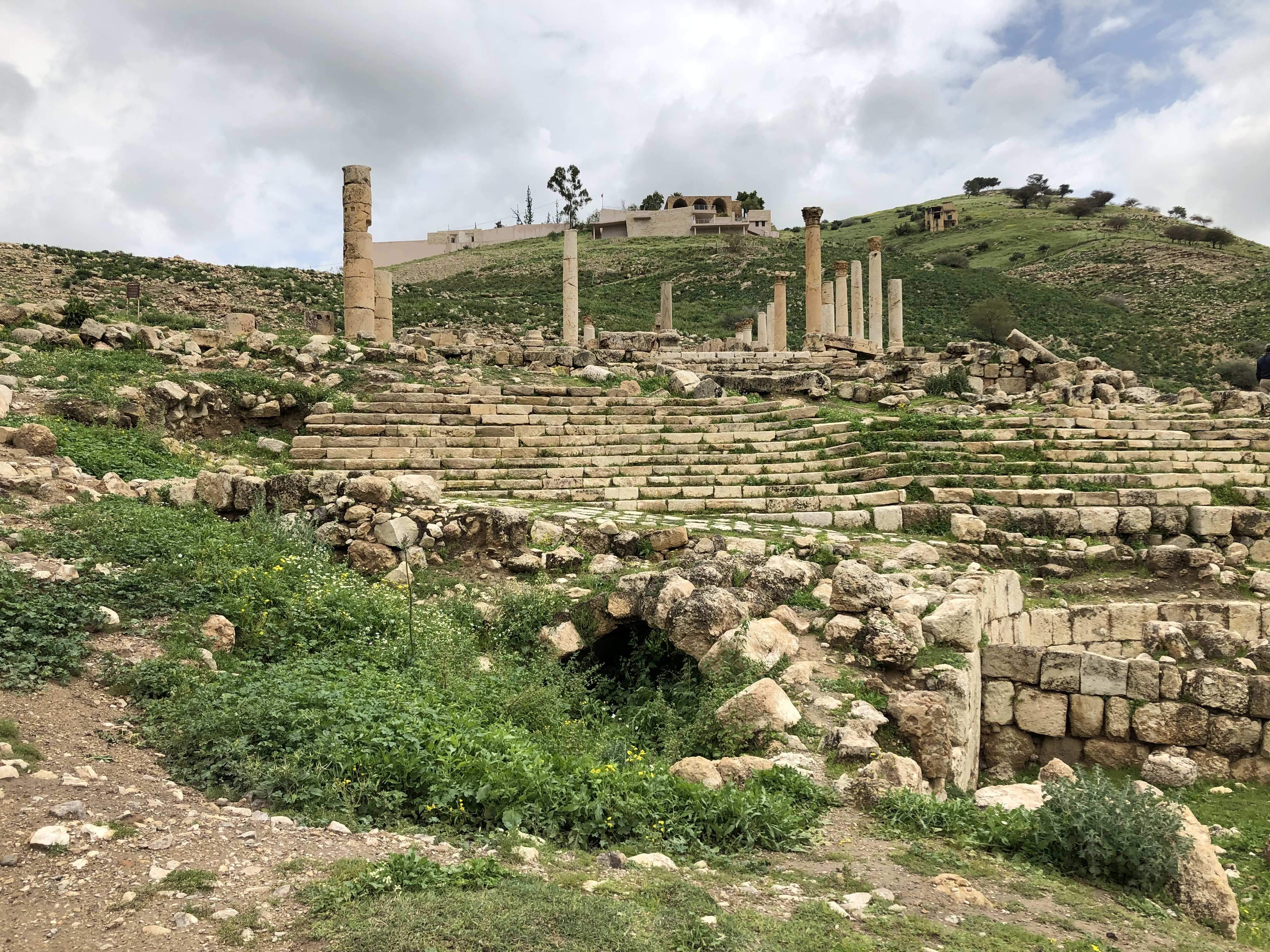 Pella temple steps